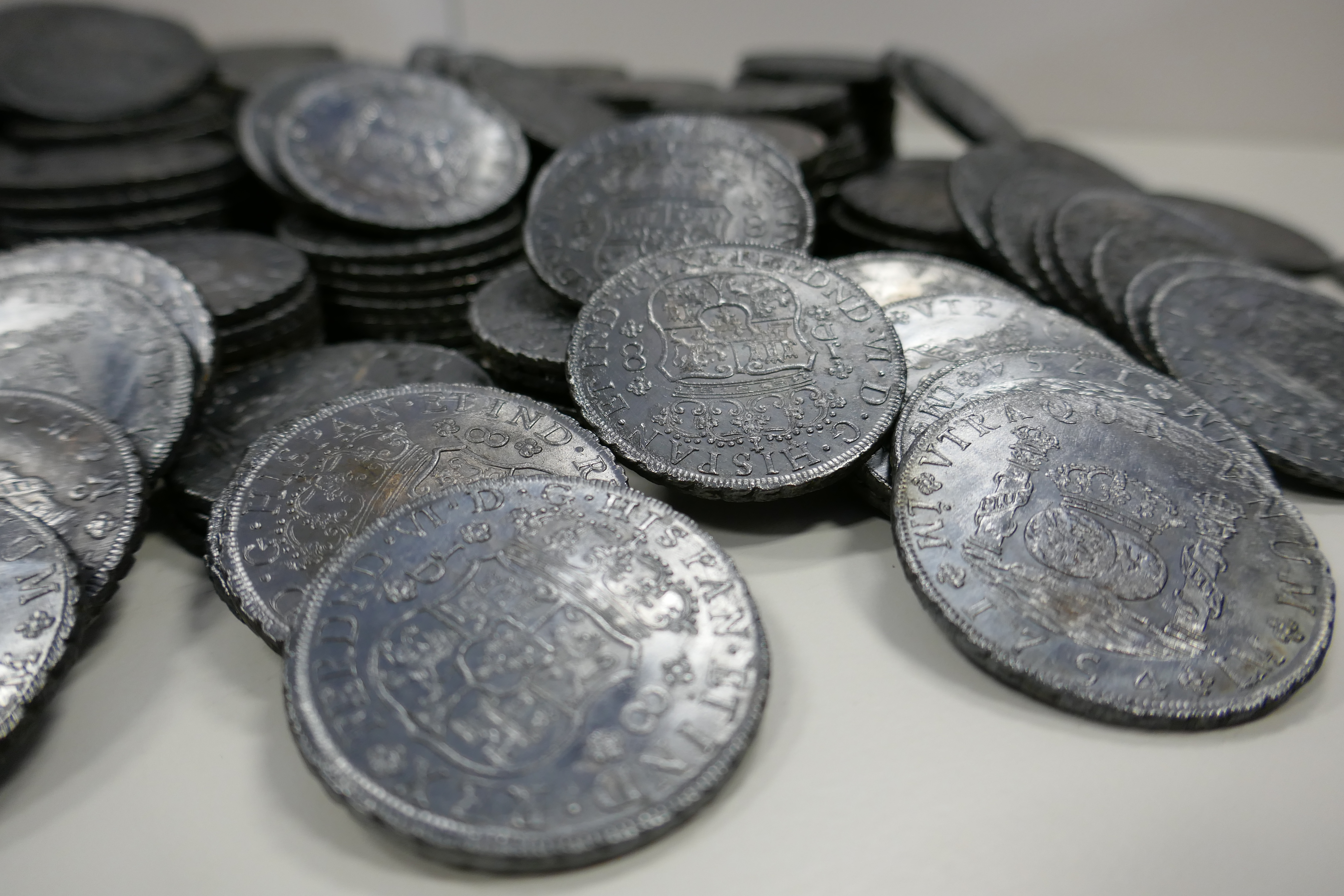 Restored coins frome the wreckage of the Jeanne-Elisabeth (brick)